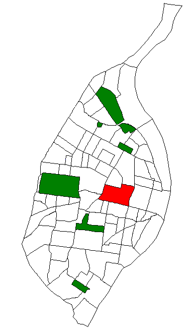 Map of St. Louis Neighborhood #37